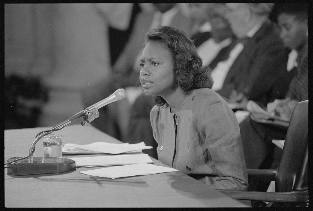 Anita Hill testifying in front of the Senate Judiciary Committee during Clarence Thomas's Supreme Court confirmation hearing.